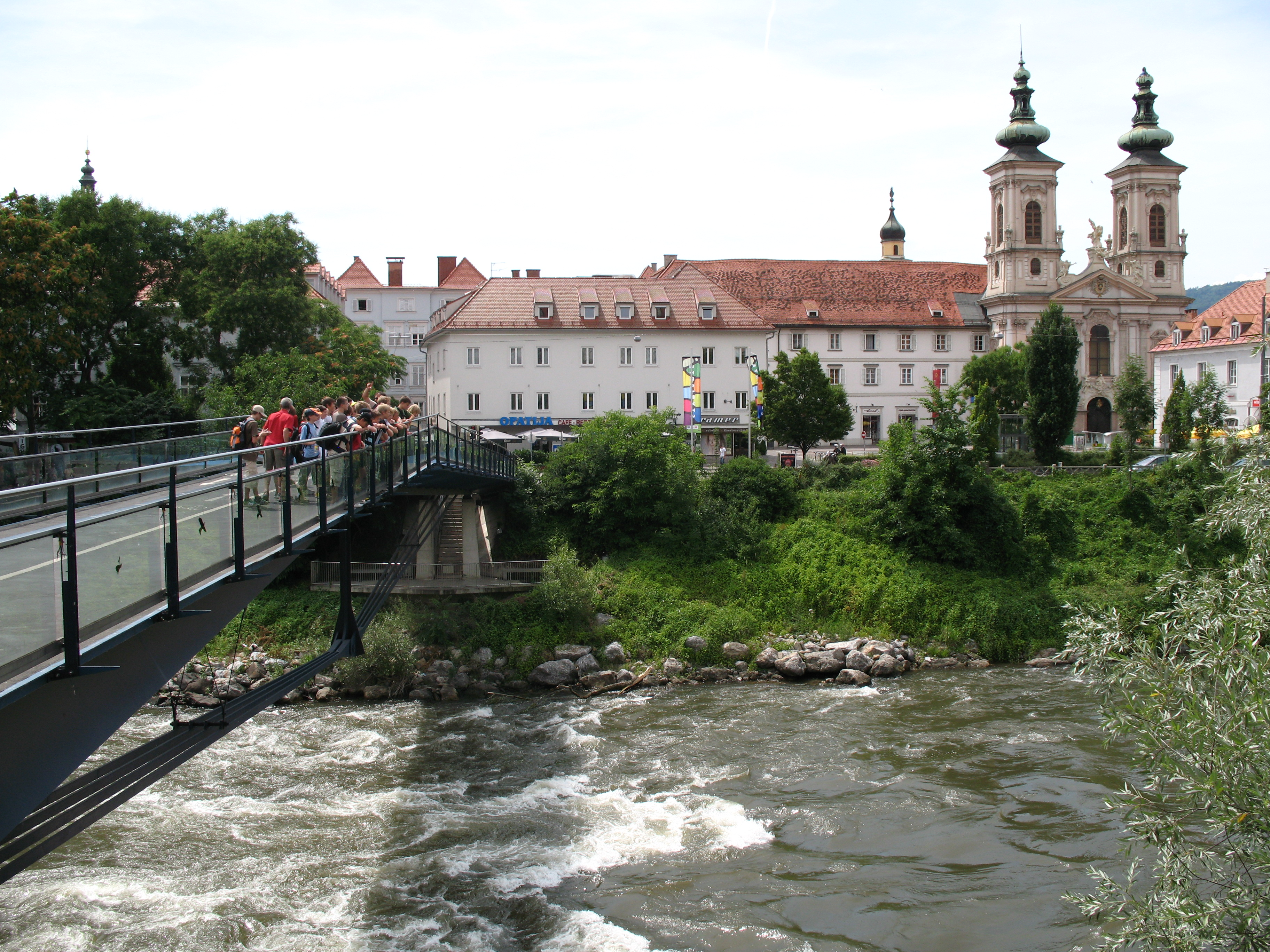 Mariahilfkirche (lit. "Mary Help Church"), Graz, Austria